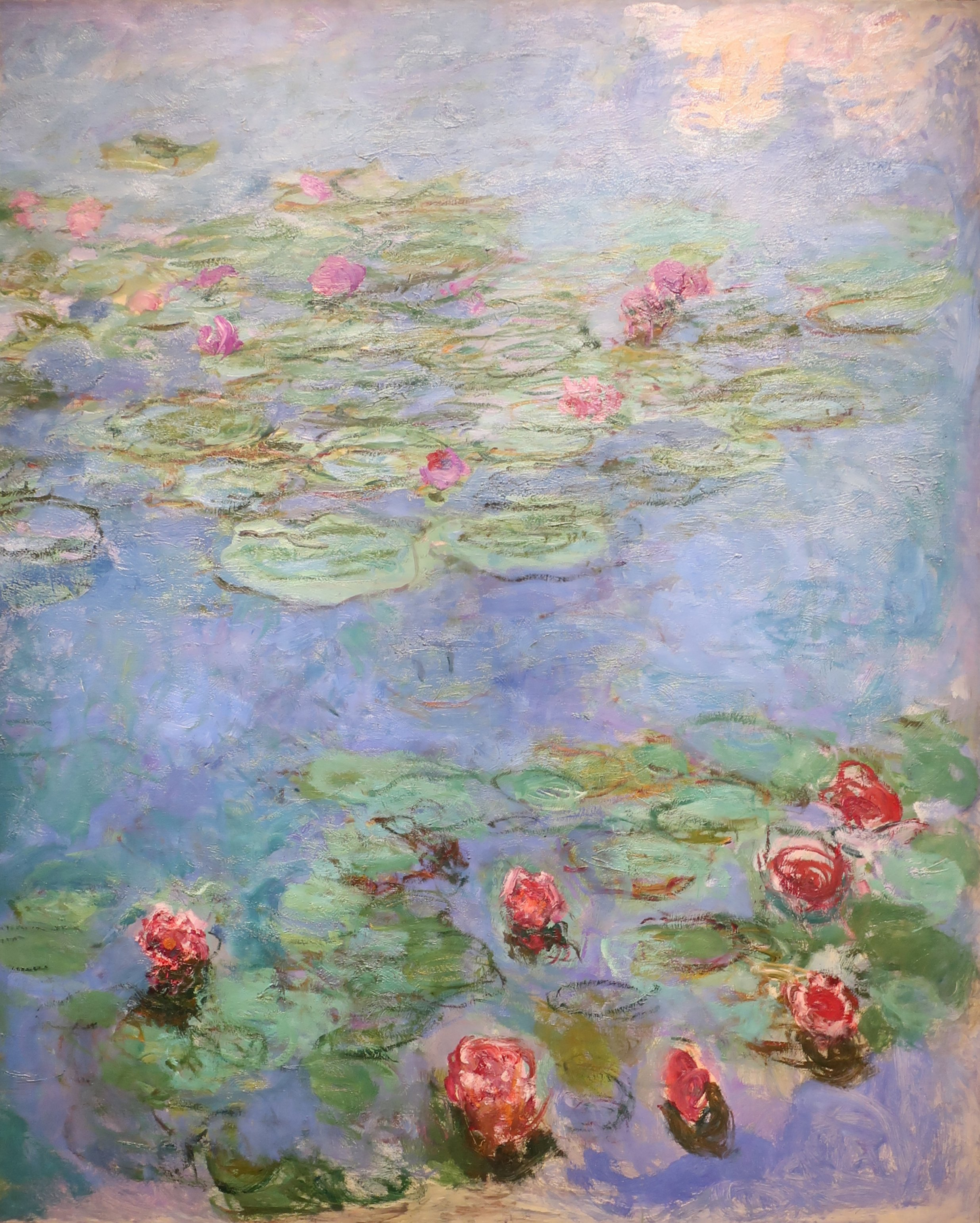 Water Lilies by Claude Monet, c. 1914-1917, California Palace of the Legion of Honor, accession 1973.3